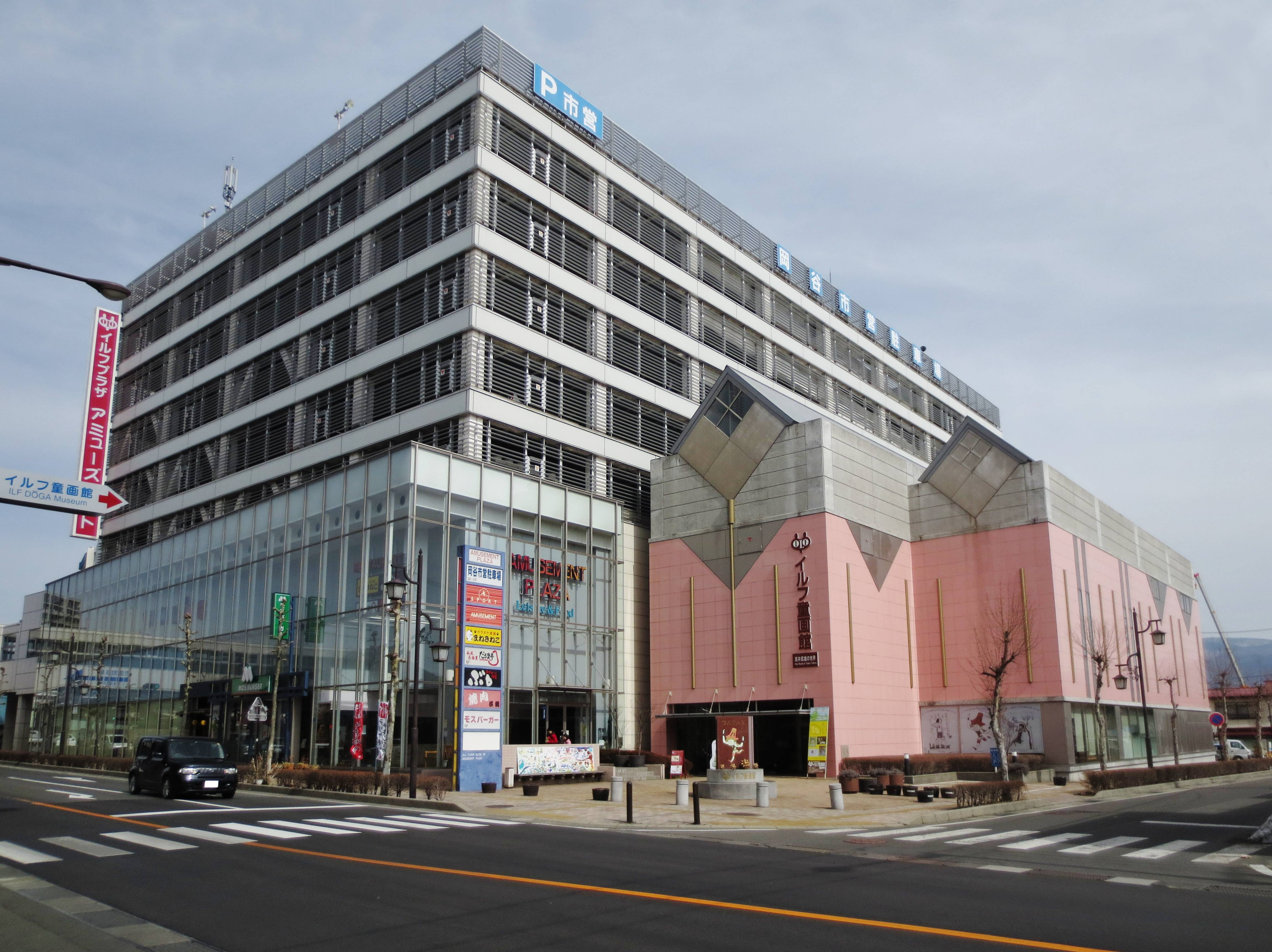 ILF Plaza Amusement.